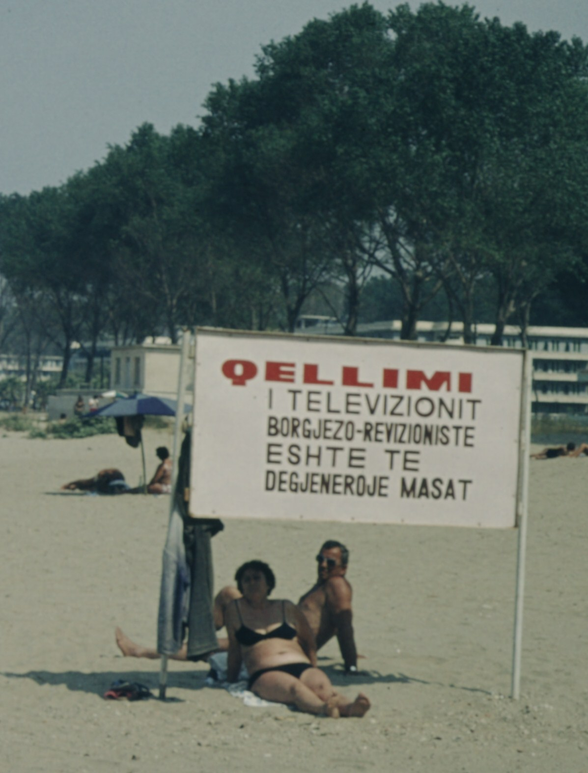 Sign exhorting Albanians not to watch foreign TV